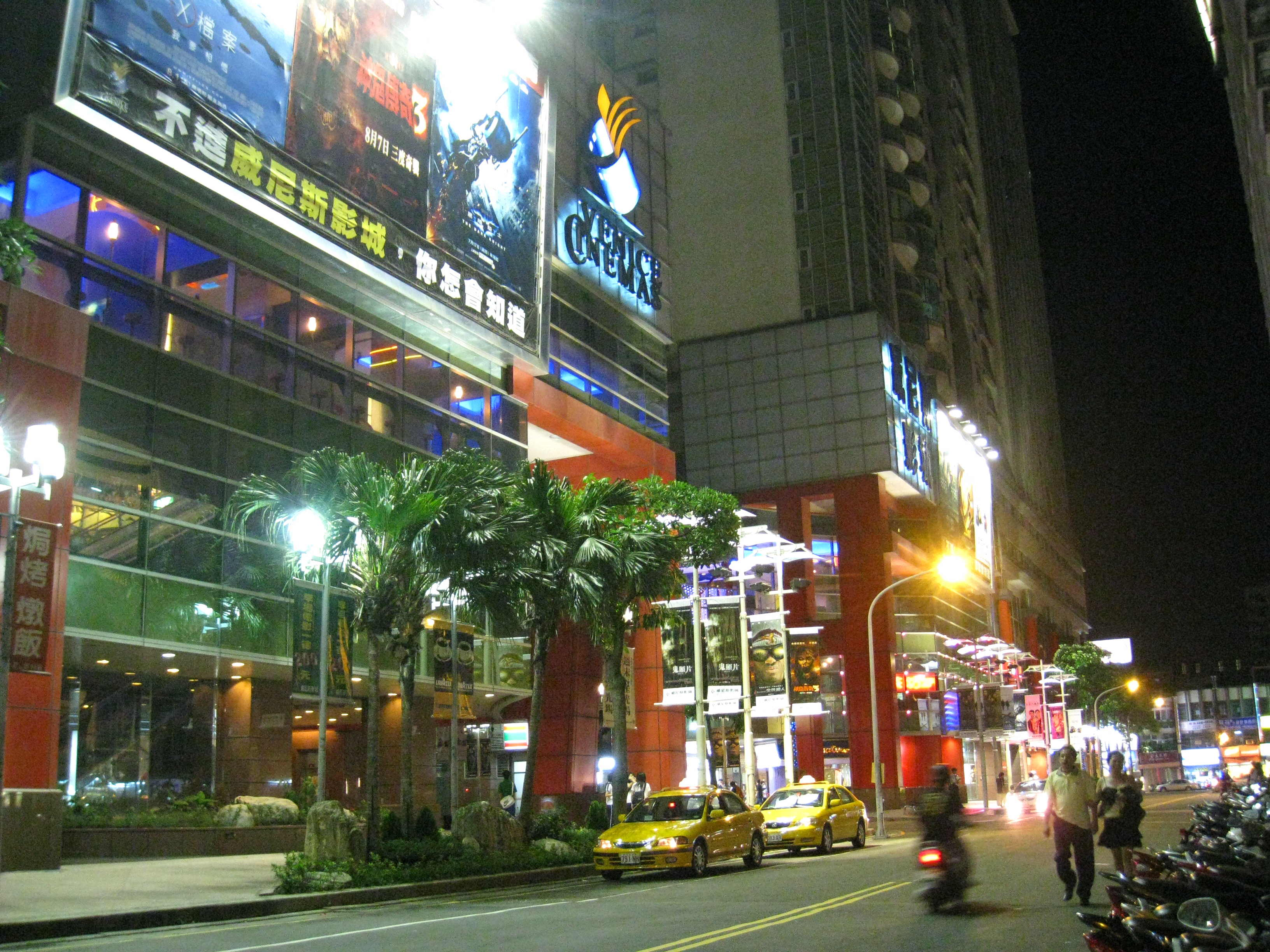 Jhongli Venice Cinemas.